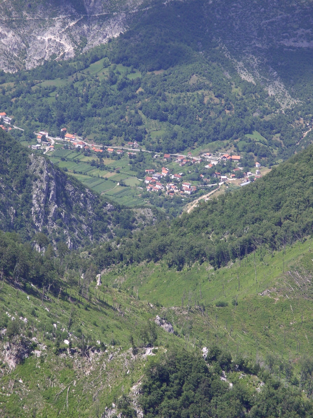 Dreznica river canyon in the Čabulja mountains, Bosnia and Herzegovina